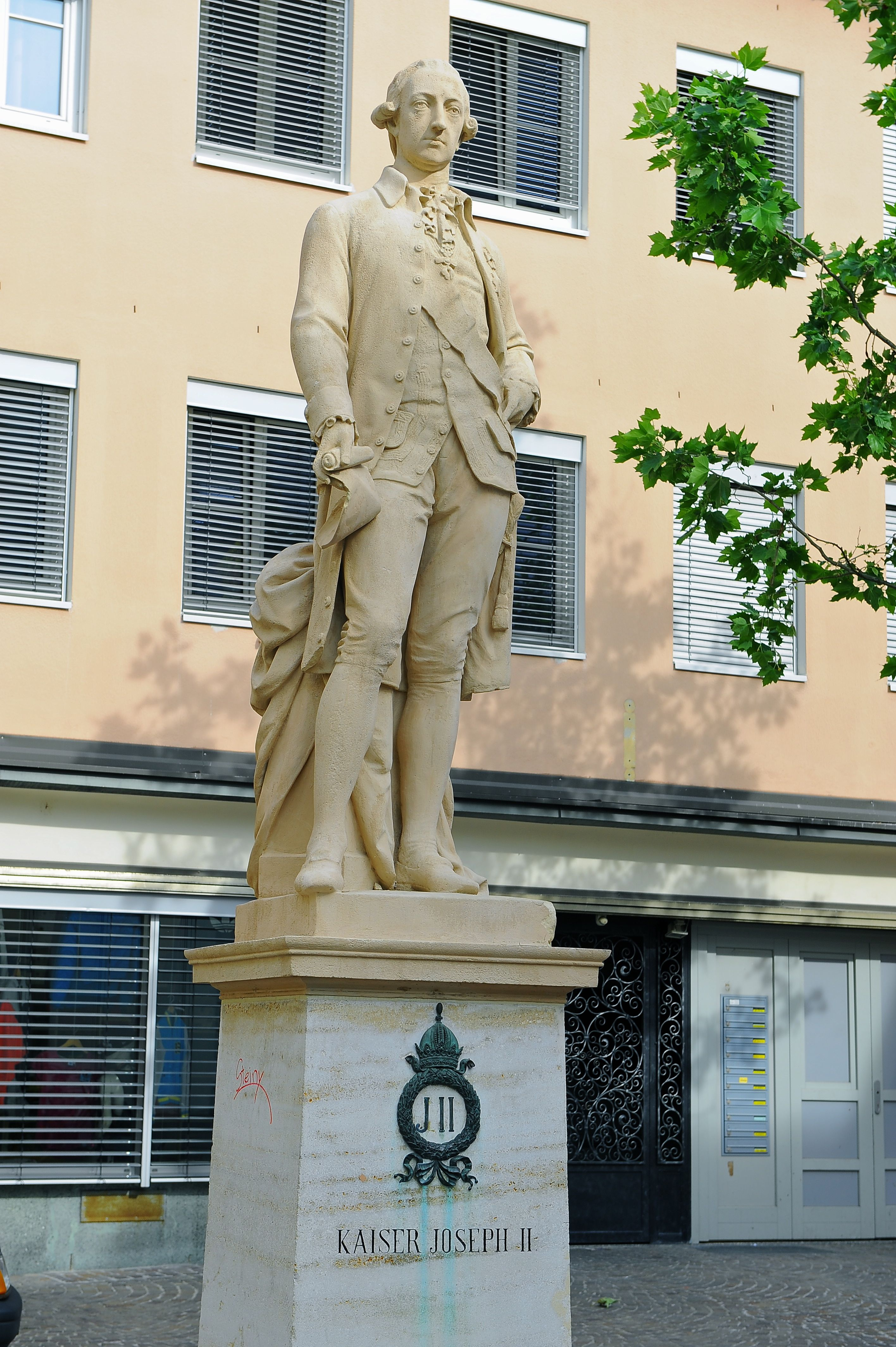 Emperor Josef II. memorial on the Kaiser-Josef-Platz, city Villach, Carinthia, Austria